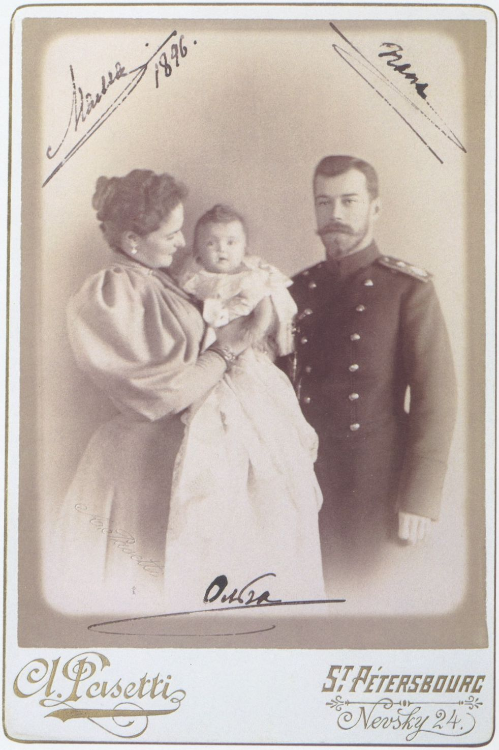 Empress Alexandra Fyodorovna and Emperor Nicholas II with their baby daughter Grand Duchess Olga Nikolaevna.